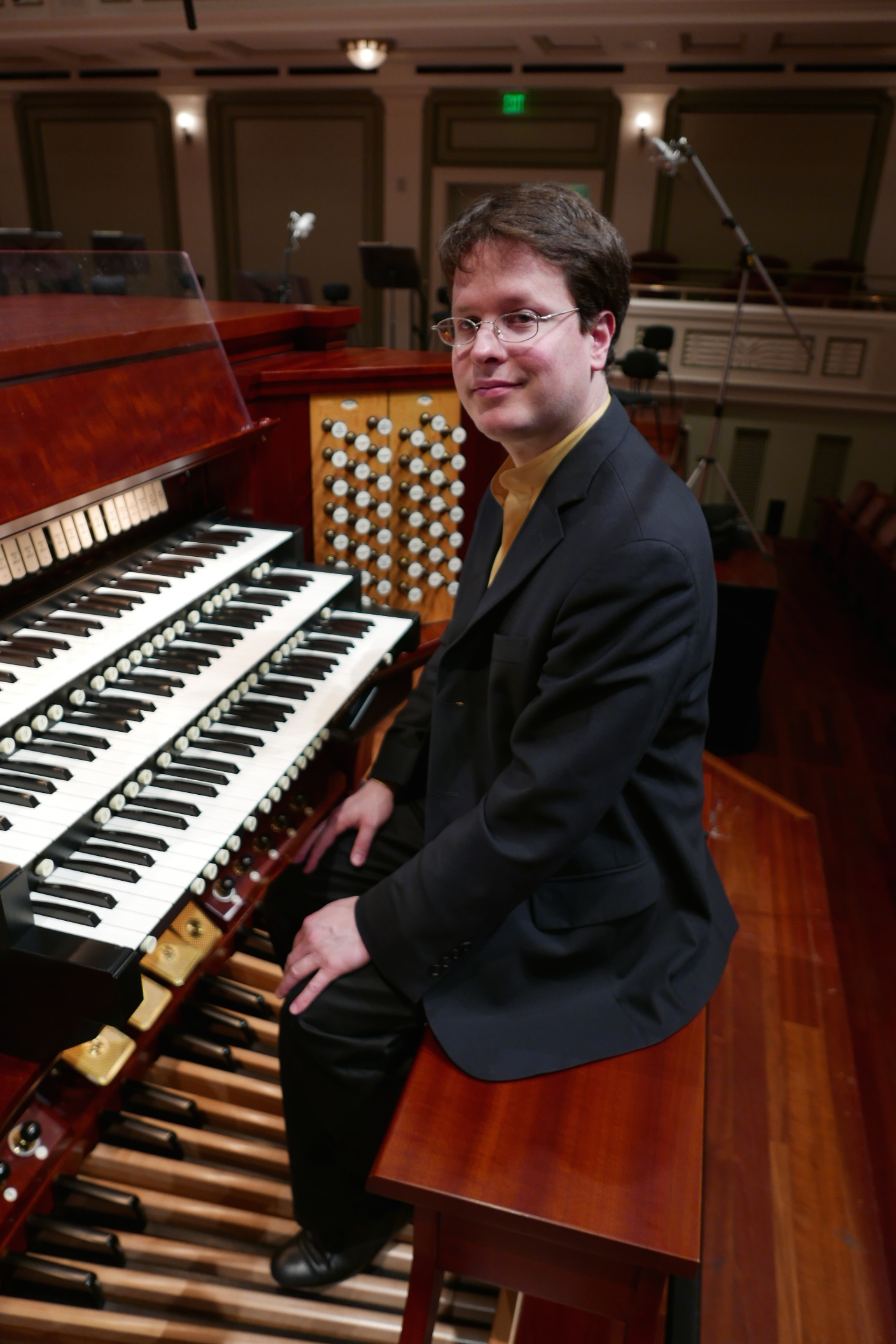 Paul Jacobs at the Schermerhorn Organ at the Nashville Symphony, 2015